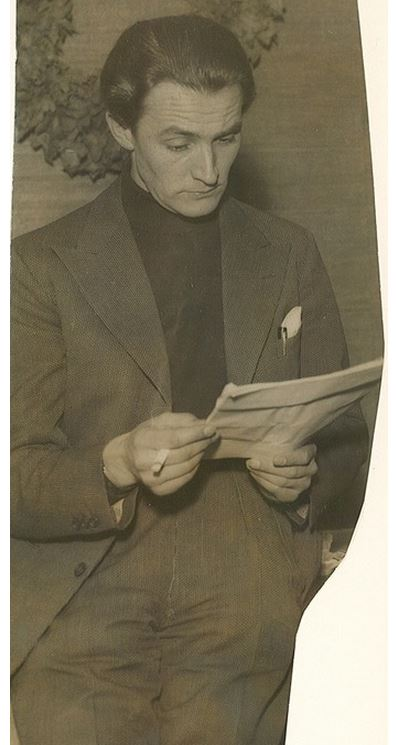 Norwegian medical doctor and actor Fridtjof Mjøen (1897–1967) pictured in the 1930s